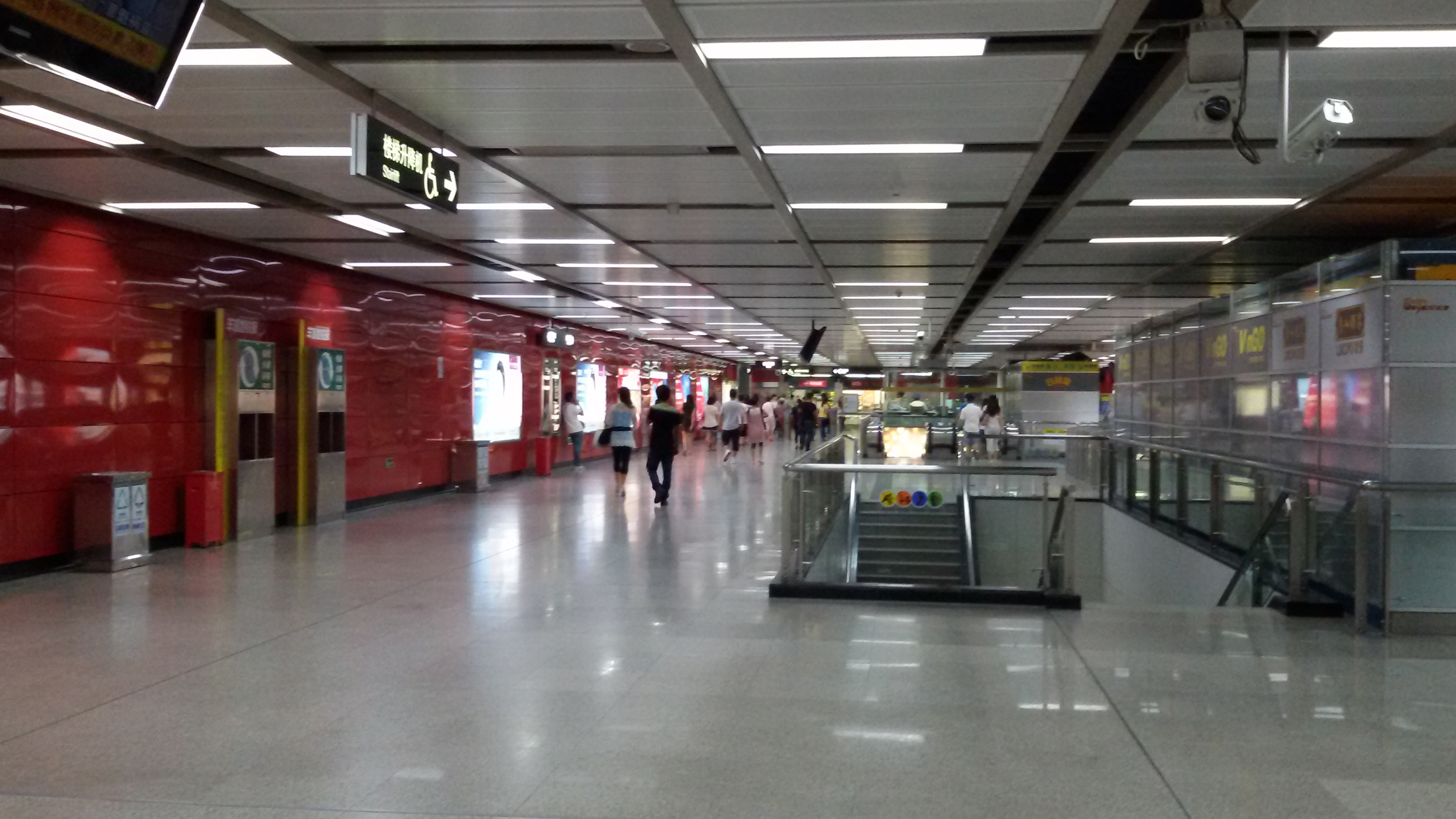 Station Concourse for Chigang Station in Guangzhou Metro 粵語: 廣州地鐵，赤崗站嘅站廳。